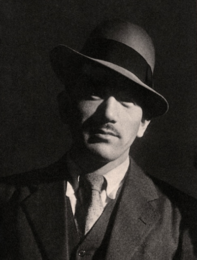 Yasujirō Ozu (12 December 1903–12 December 1963)